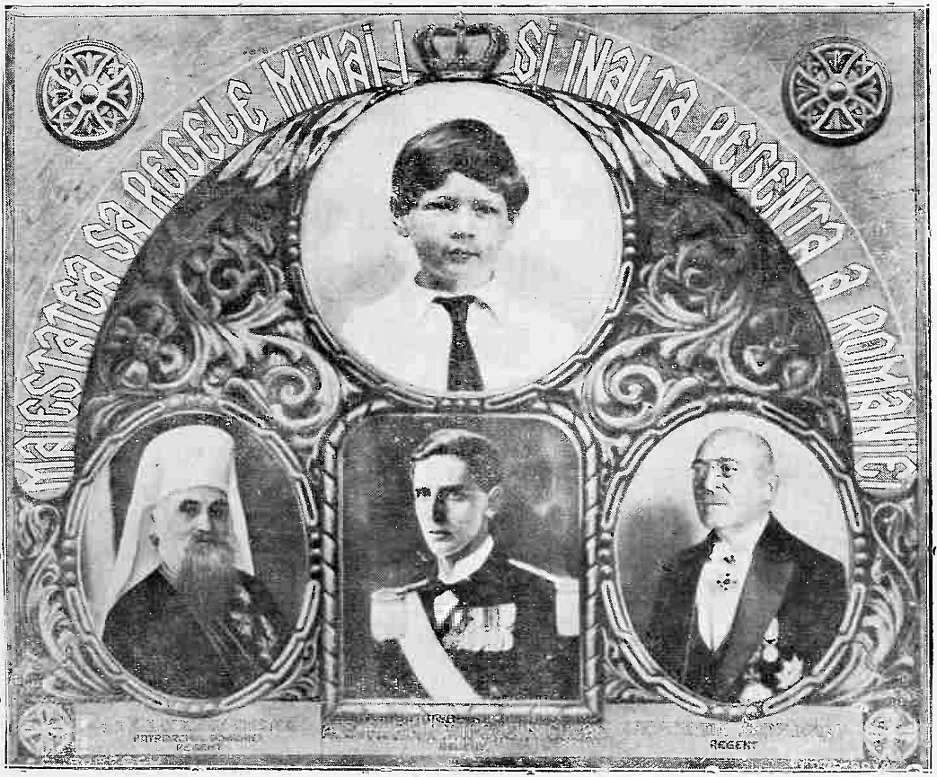 The Regecy of the infant King Michael I (Romania).